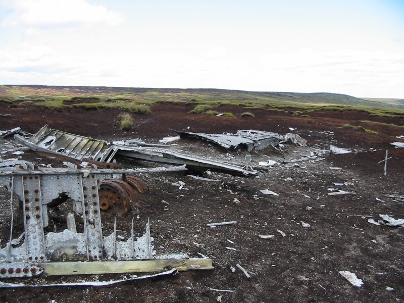 General view of aircraft Wreckage. Taken by Geotek 2003